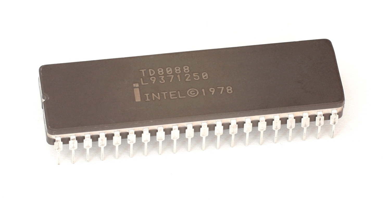 CPU Intel TD8088